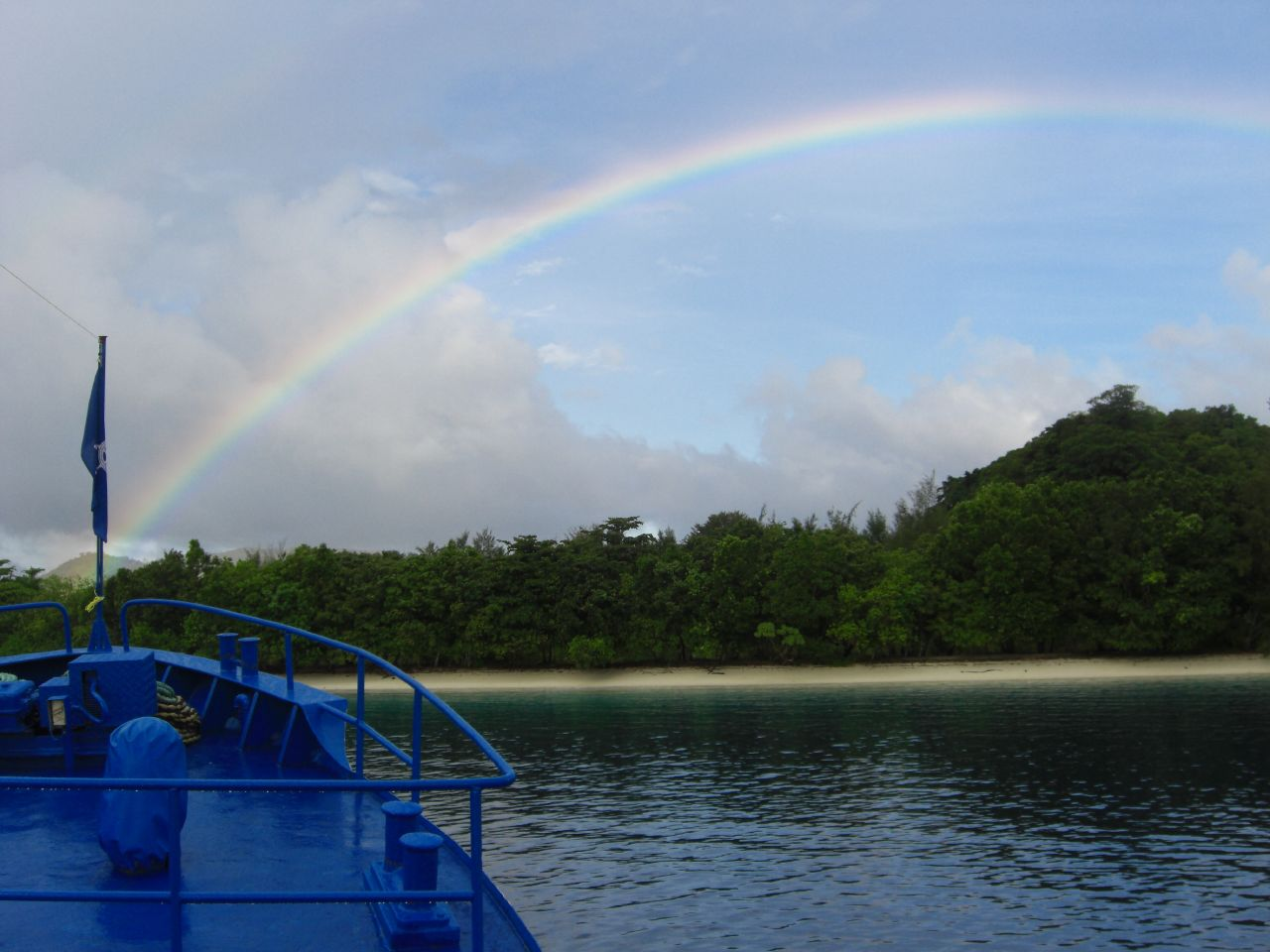 Rainbow over Tulagi Island